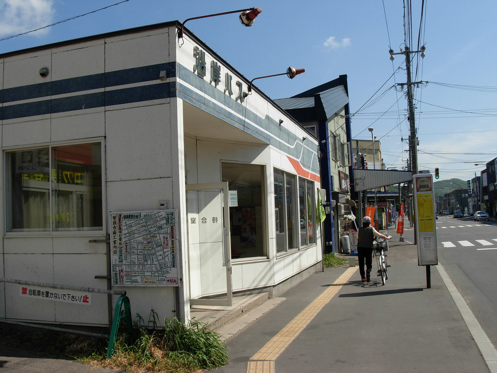 Engan bus Rumoi station bus stop